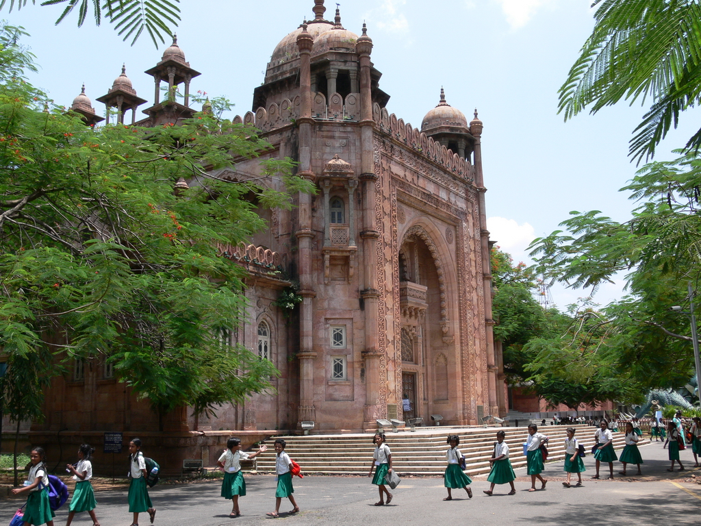 National Art Gallery, part of the Government Museum at Chennai (Tamil Nadu, India)